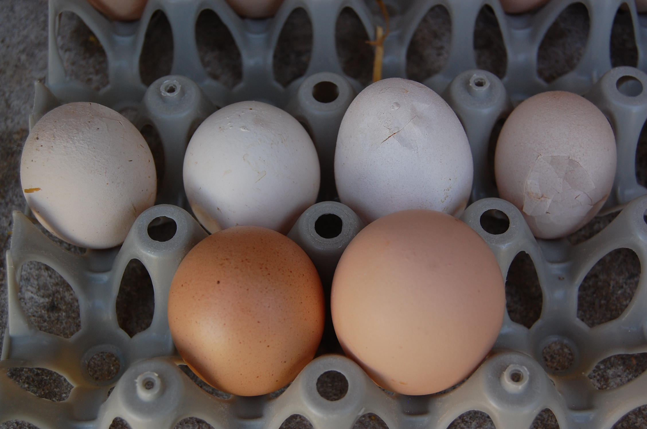 Eggs from broiler parent hens in the recovery phase of a H9N2 influenza outbreak